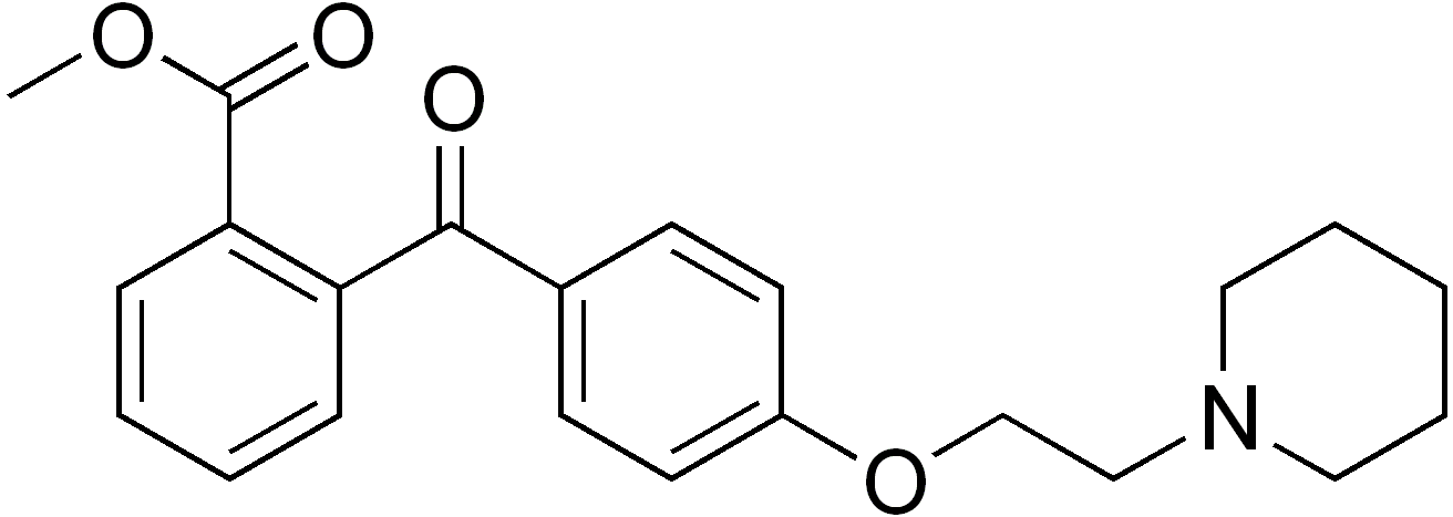 chemical structure of pitofenone